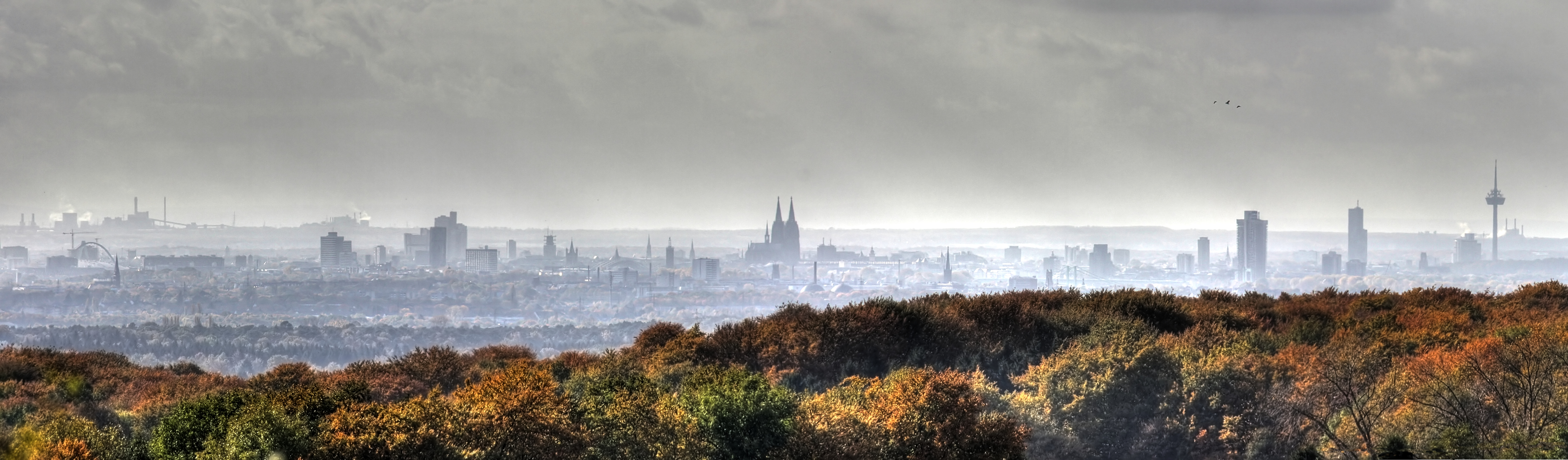 Skyline of Cologne, Germany on a rainy day. Taken from a hill in Voiswinkel